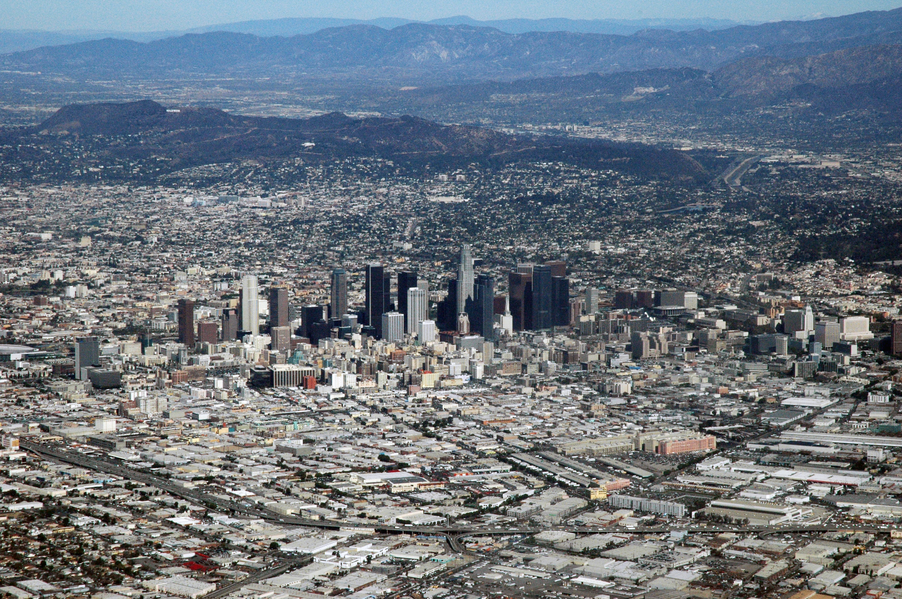 Downtown Los Angeles as seen from my American Airlines flight from Japan.